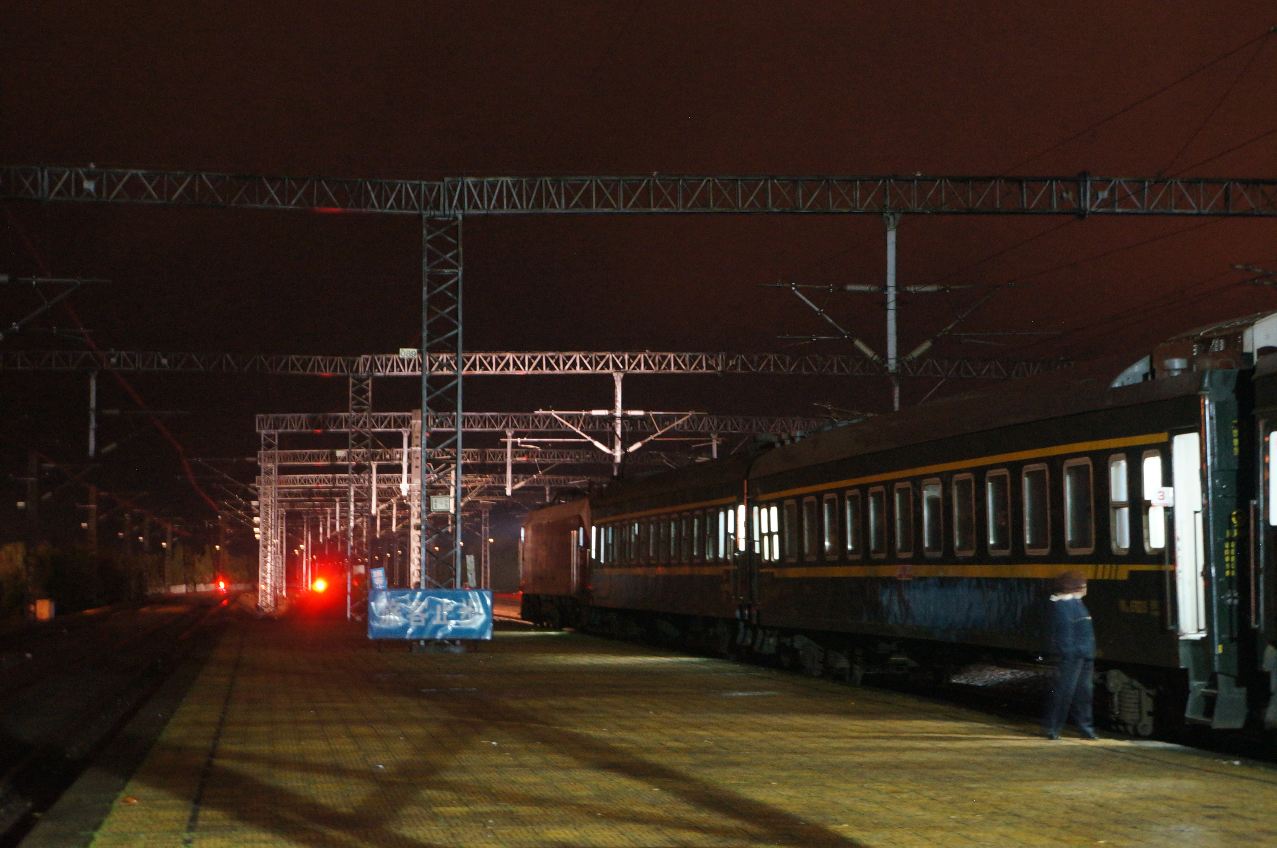 201612 K1671 at Yushan Station, K1671 was supposed to be waiting Z287, however, the delay of Z287 made K1671 an unscheduled stuck at Shangrao in order to make ways for Z287, Z247, Z25, Z35 and Z45